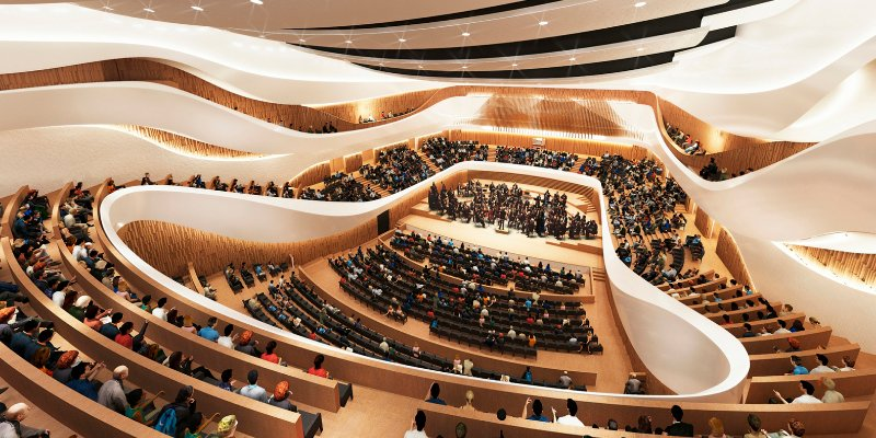 Great Hall of Zaryadye Concert Hall